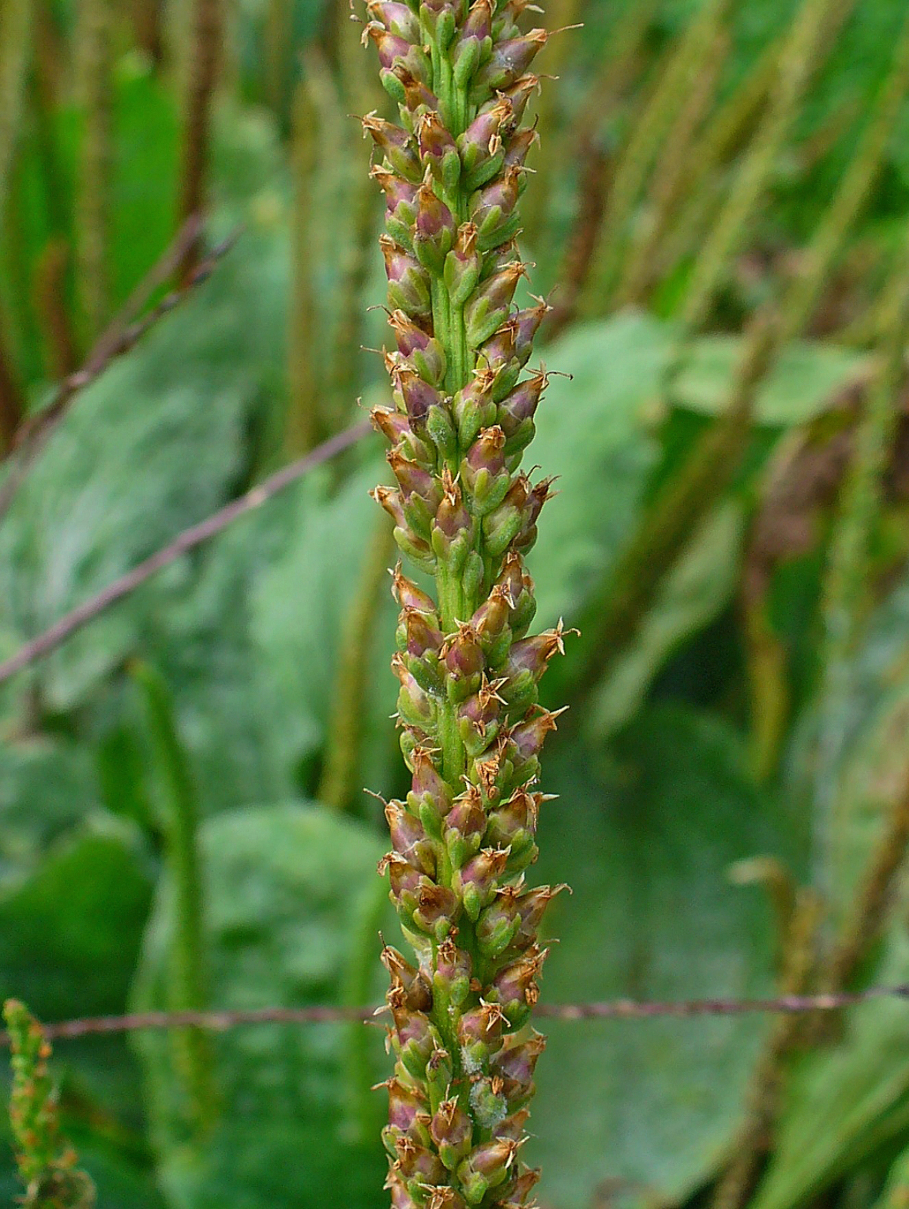 Plantago major, Plantaginaceae, Greater Plantain, Common Plantain, developing fruits.